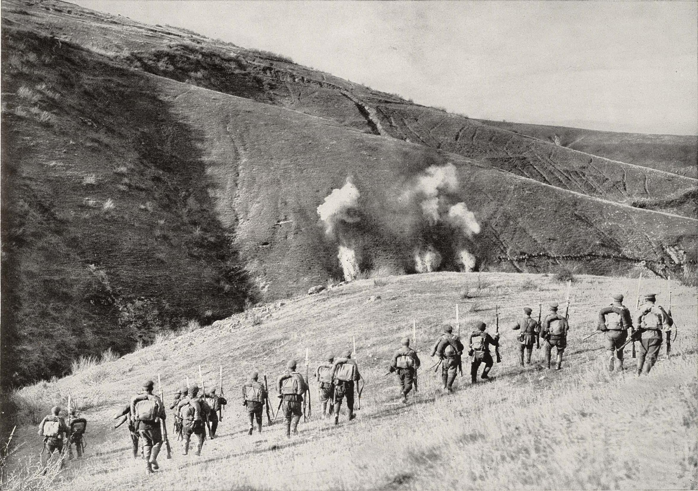 Bulgarian infantry attack in the Bitola area, 1916.